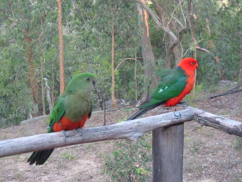 A pair of Australian King Parrots (Alisterus scapularis) at Yango Creek, New South Wales, Australia. The female is on the left, and the male is on the right.